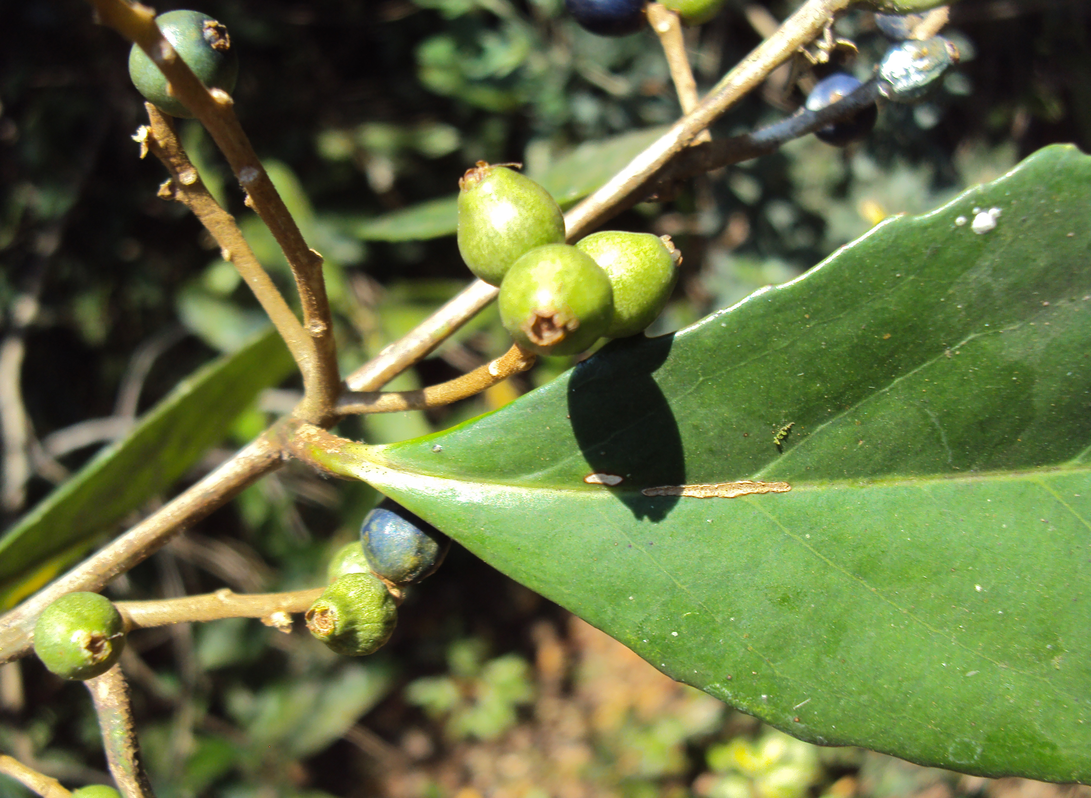 Symplocos cochinchinensis